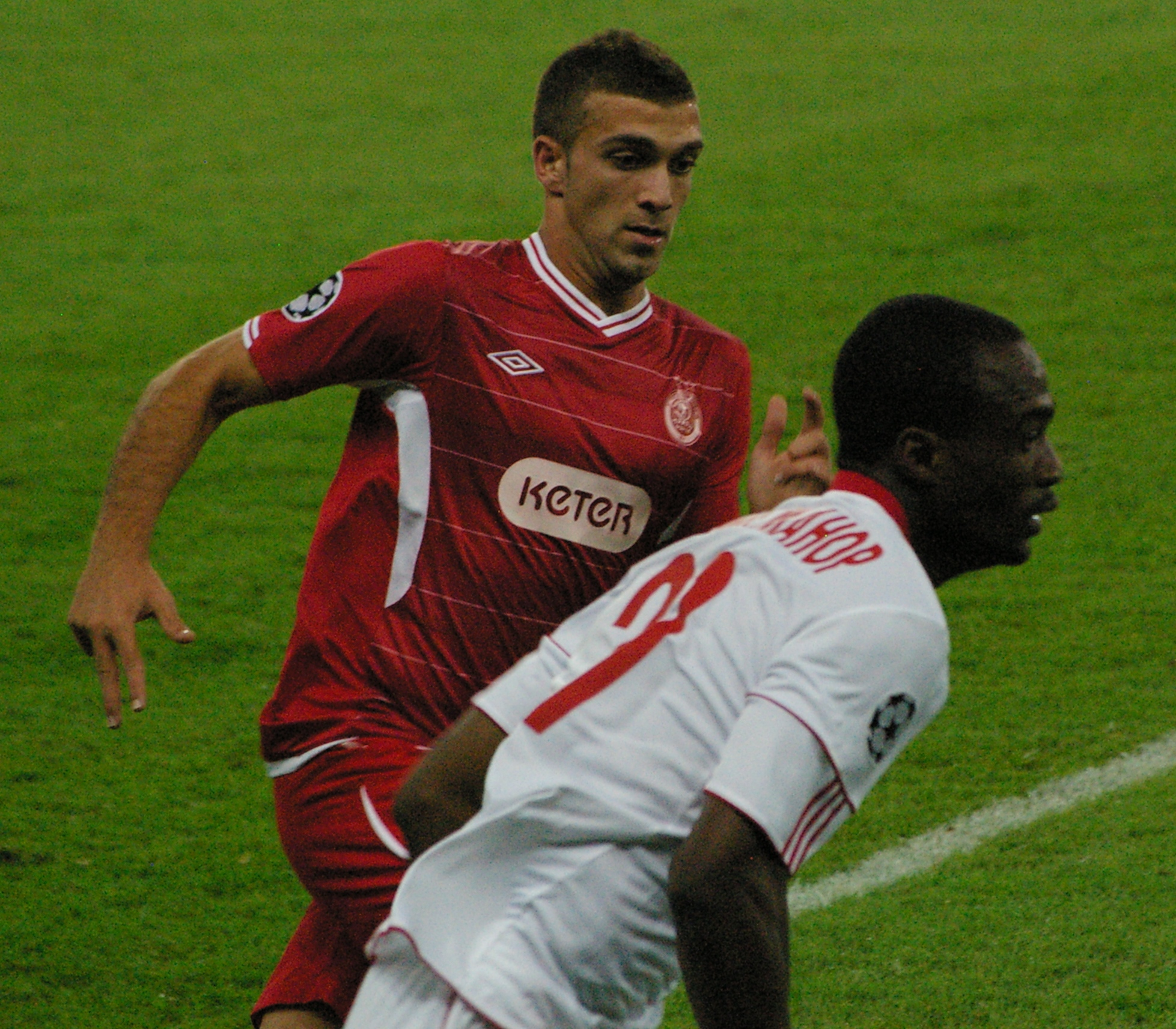 striker FC Salzburg